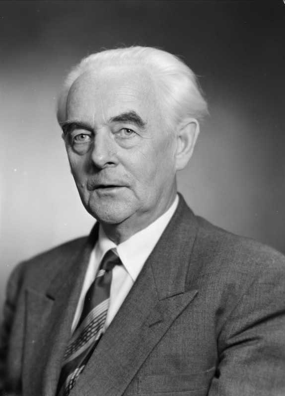 Toralv Øksnevad was a journalist, editor, politician and during the war he presented the news broadcasts from BBC in Norwegian, earning him the nickname The voice from London